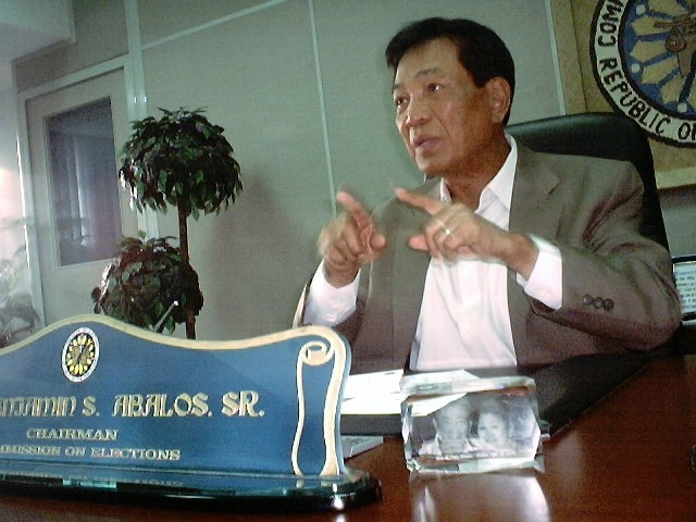 Benjamin S. Abalos, Sr.